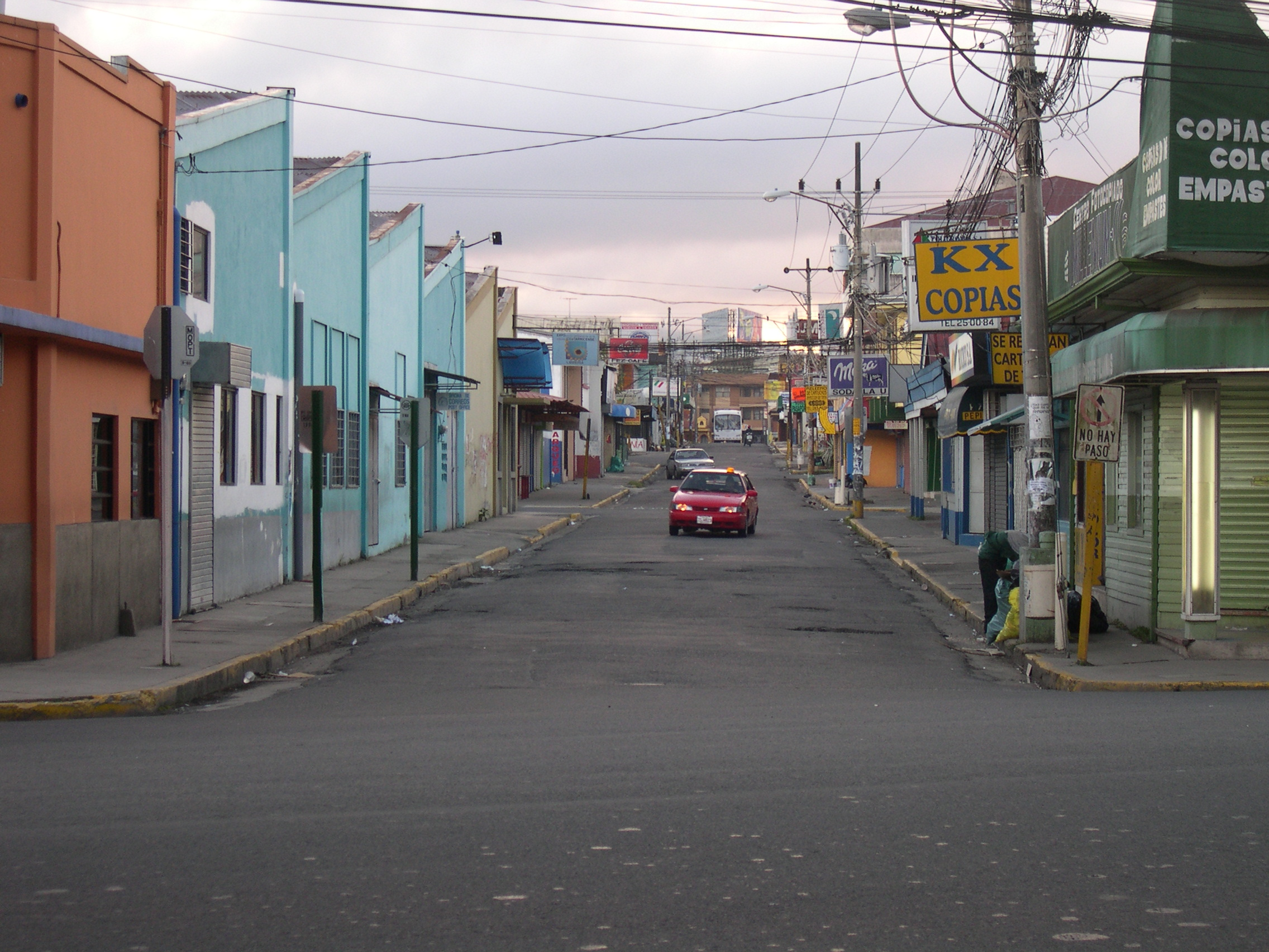 Calle de la Amargura, facing away from UCR